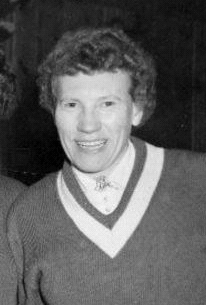 Photograph of the Finnish skiers Siiri Rantanen, Mirja Hietamies and Eva Hög with the Finnish ambassador Asko Ivalo at Cortina.